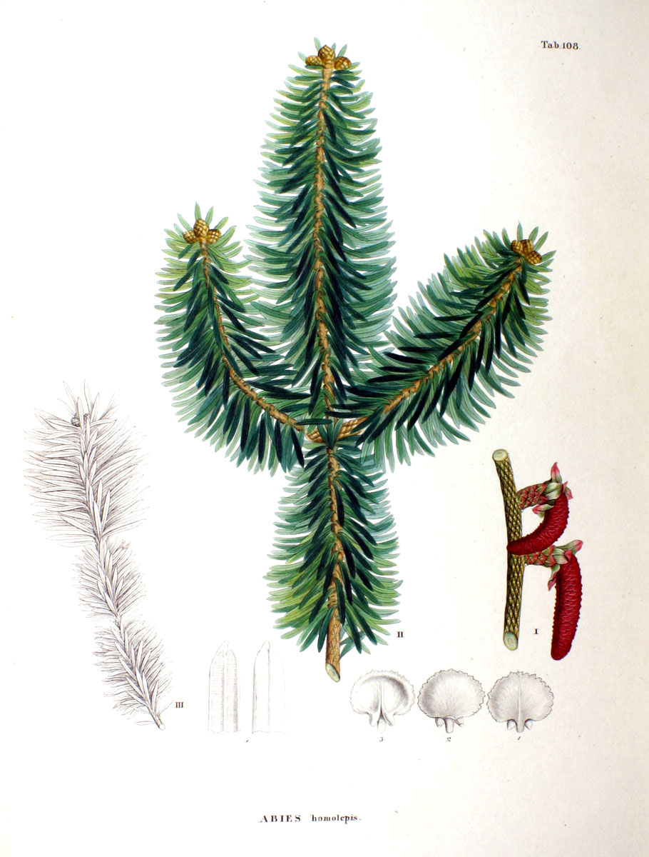 Plate from book